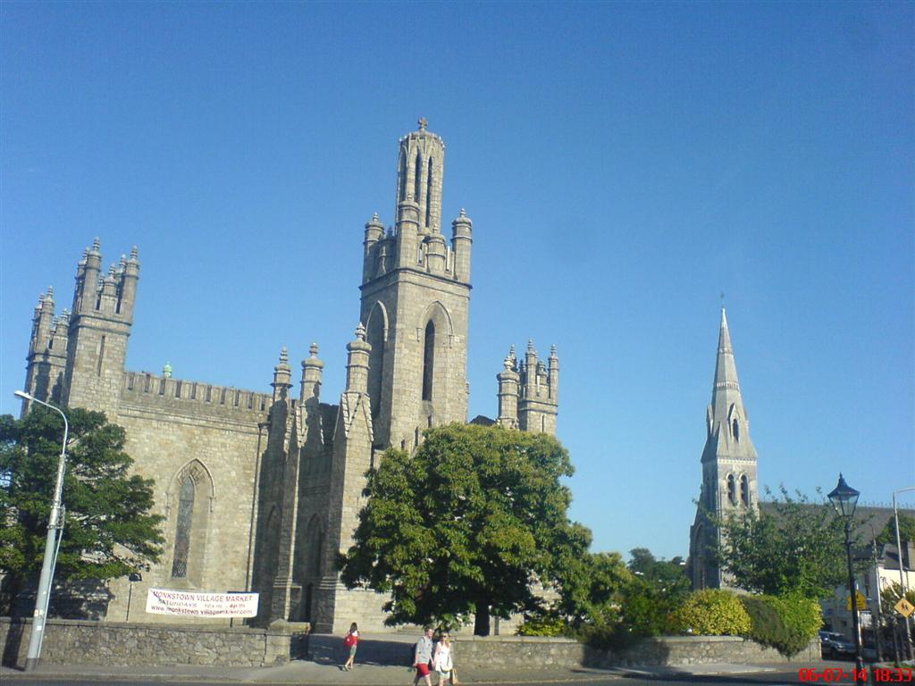 Self taken